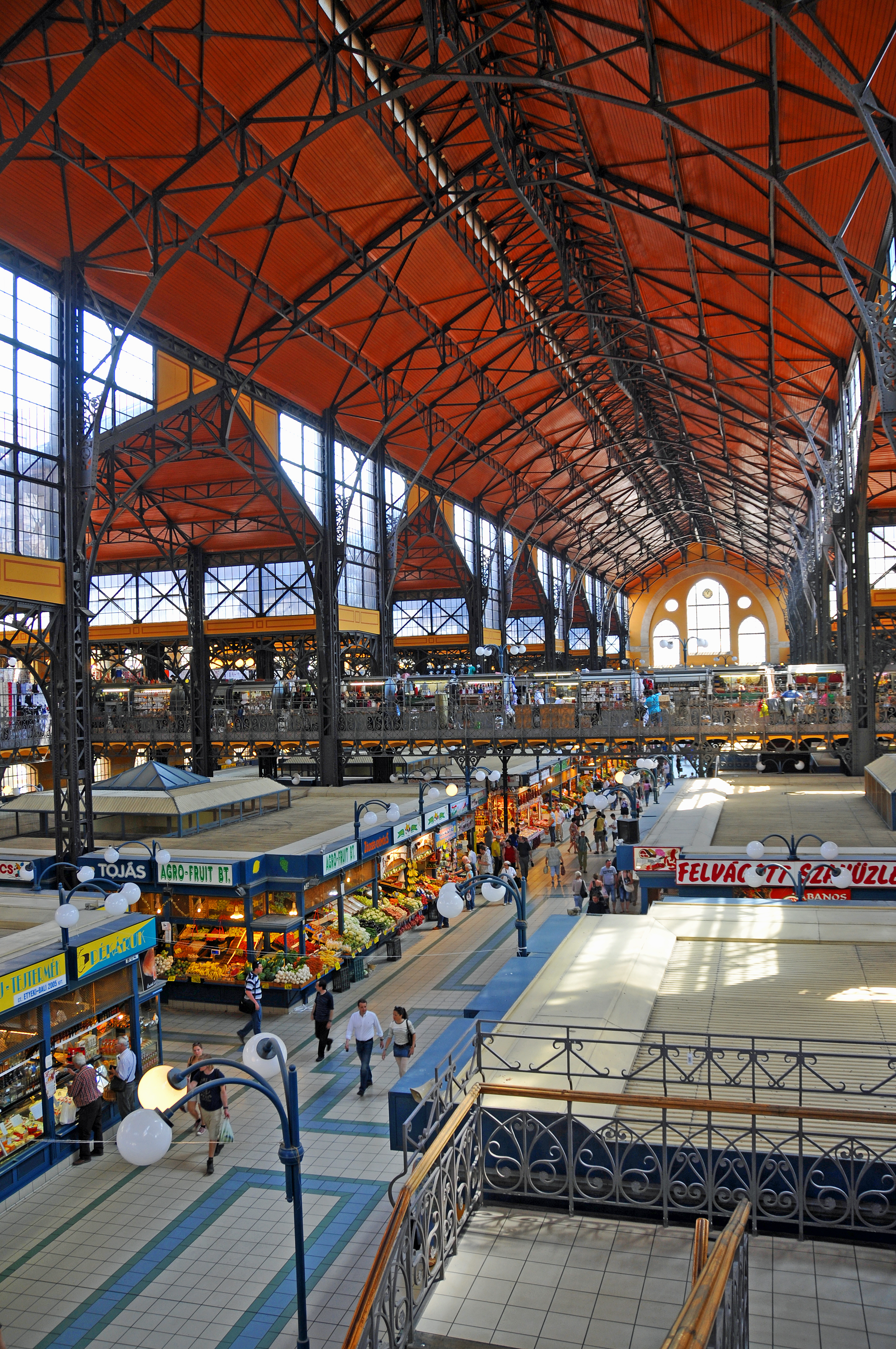 The Great Market Hall or Central Market Hall is the largest indoor market in Budapest. It was designed and built by Samu Pecz around 1896. The market offers a huge variety of stalls on three floors. A distinctive architectural feature is the roof which was restored to have colorful Zsolnay tiling.